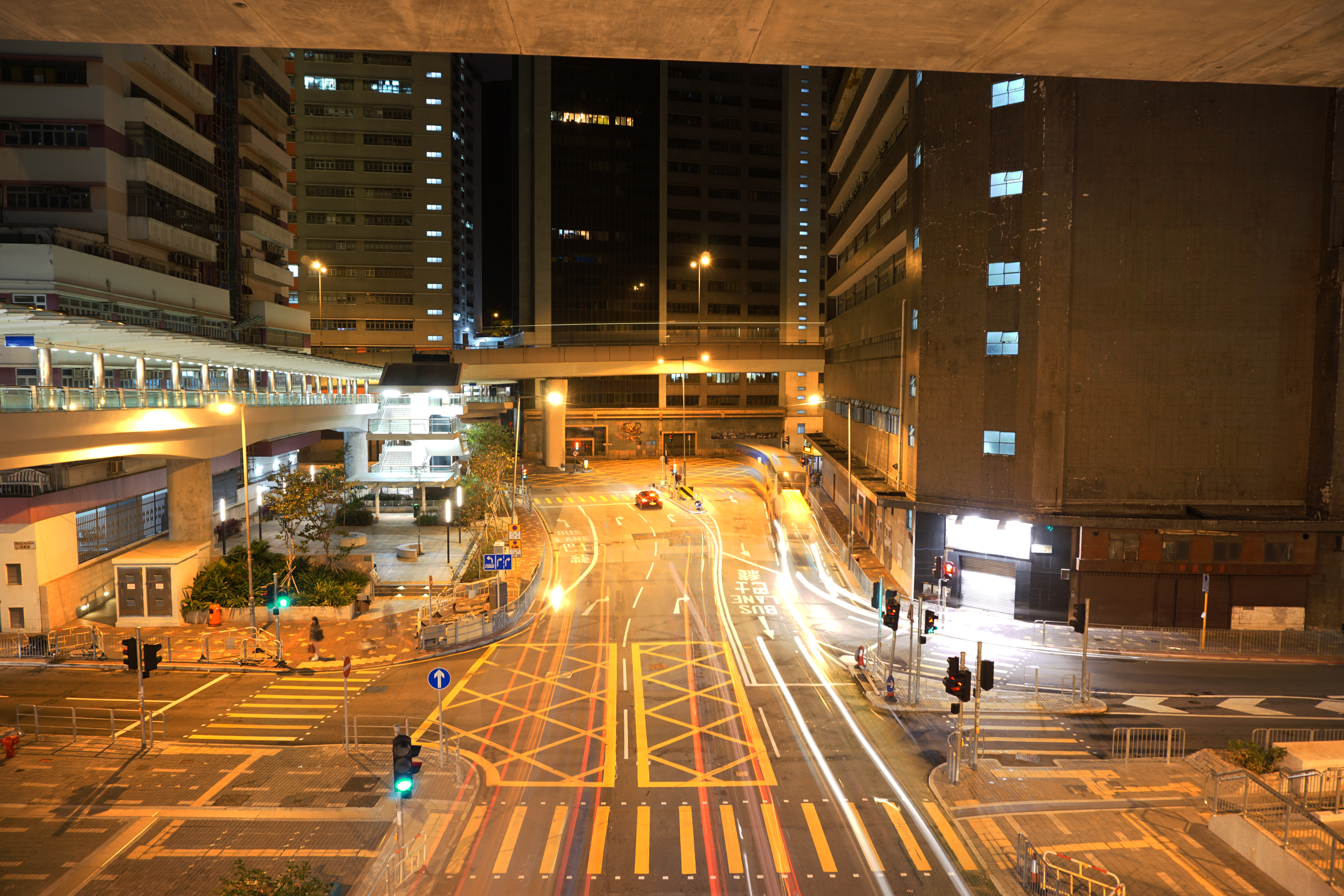 Nam Long Shan Road in Wong Chuk Hang, Hong Kong.